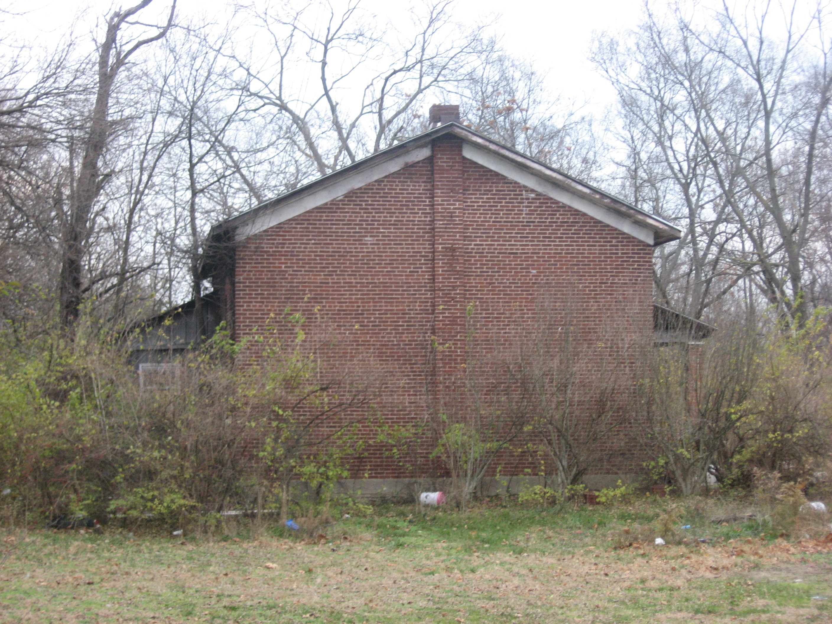 Western end of the Augspurger Schoolhouse, located at 1816 Wayne-Madison Road in Woodsdale, Ohio, United States. Built in 1868 and since converted into a residence, it is listed on the National Register of Historic Places.